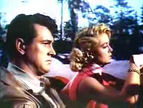 Screenshot of Rock Hudson and Dorothy Malone from the trailer for the film Written on the Wind